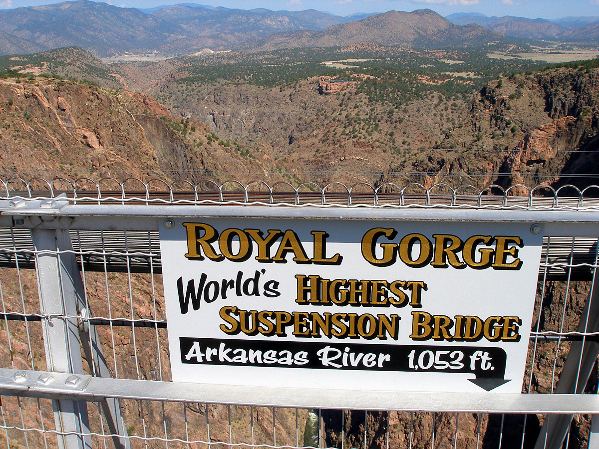 Royal Gorge Bridge, Colorado, USA, sign with 1,053 ft (321 m), the stated height since the bridge was built in 1929. The deck height from the river's surface has since been independently measured at 955 ft (291 m) in 2005 and later at 956 ft (291 m) by the bridge's owners. The bridge lost its title as highest in the world in 2001 and highest suspension bridge in the world in 2003.